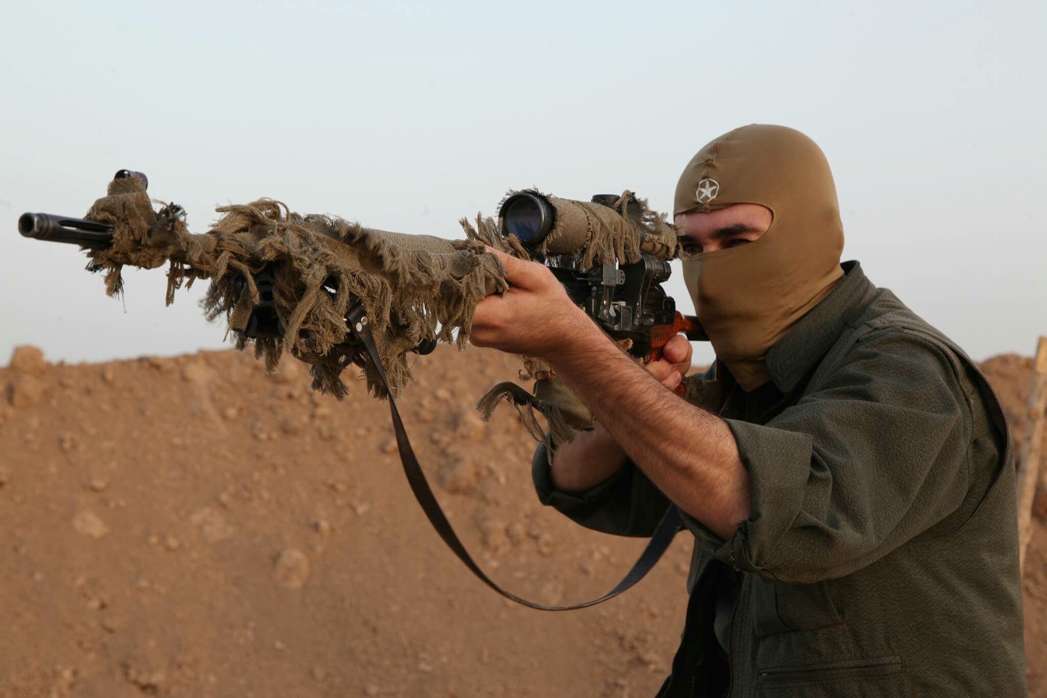 Kurdish PKK Guerilla